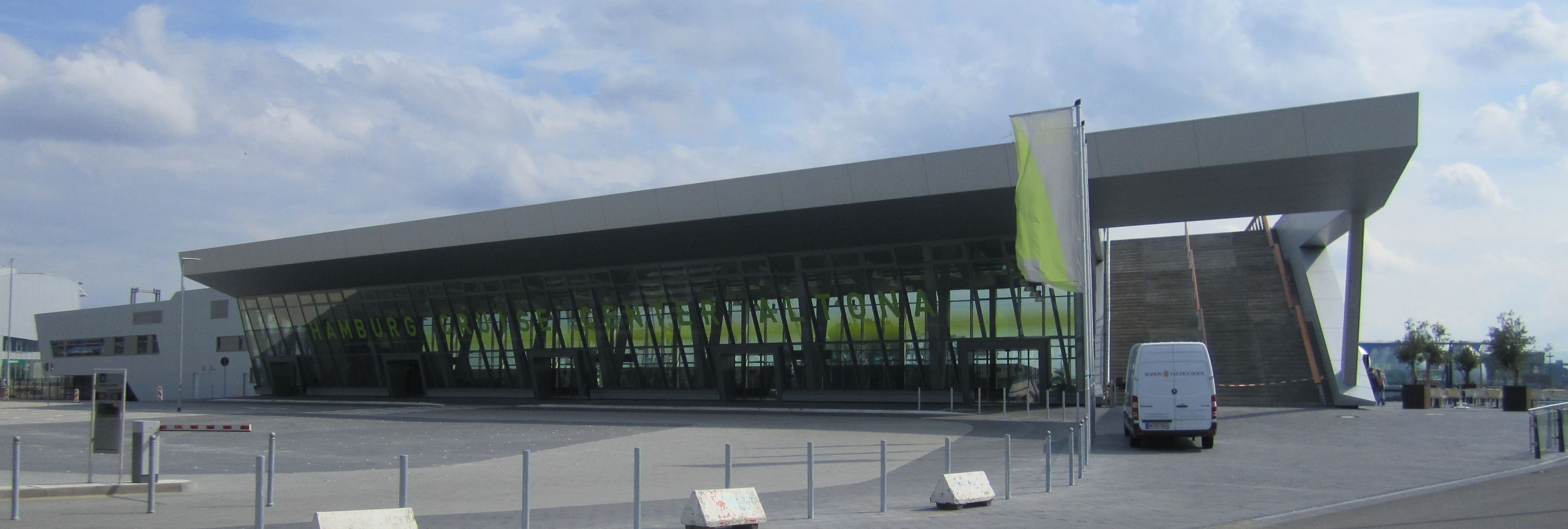 Hamburg Cruise Center Altona